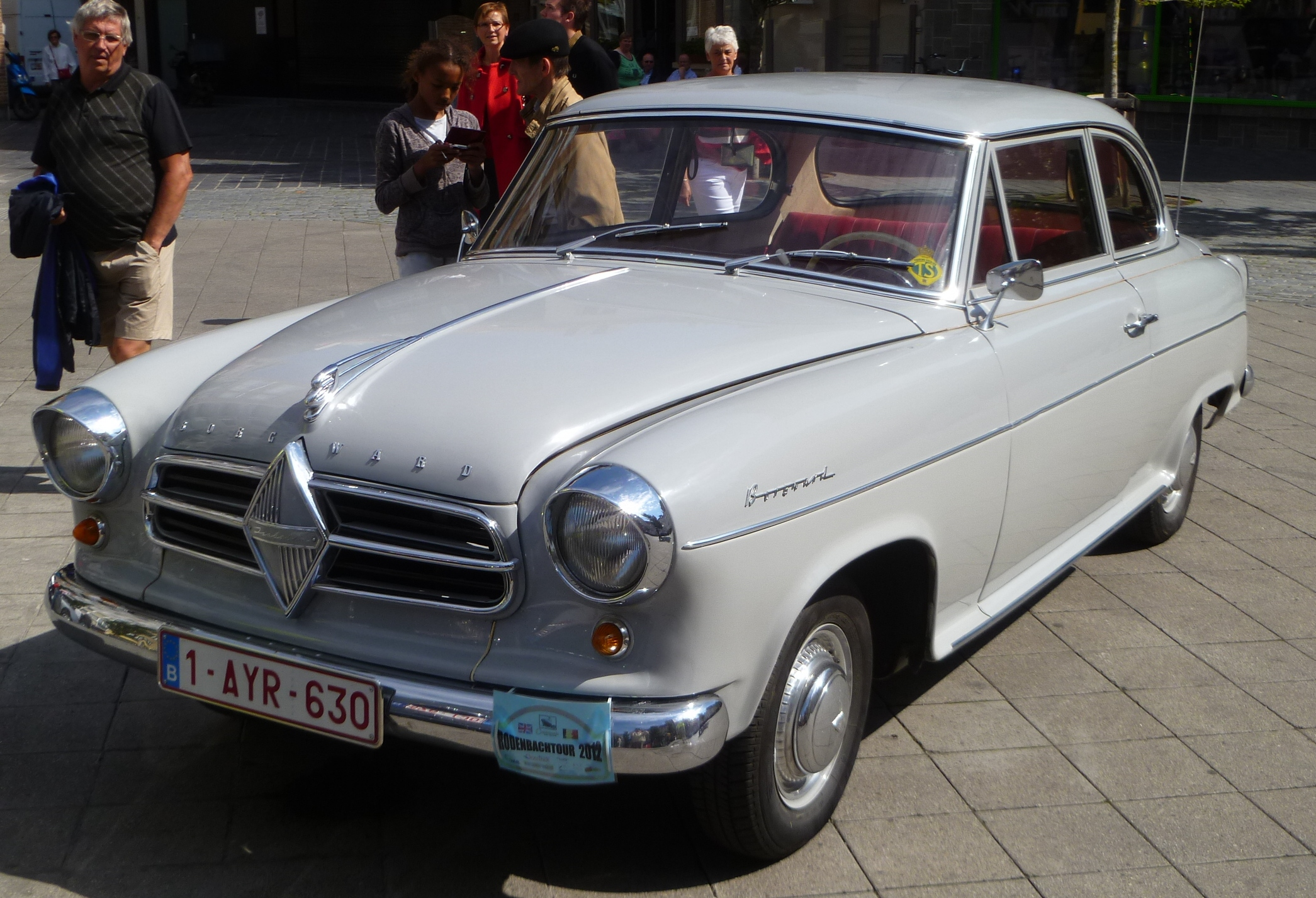 Borgward Isabella 1957 at an exhibition of special cars at Ostend, Belgium